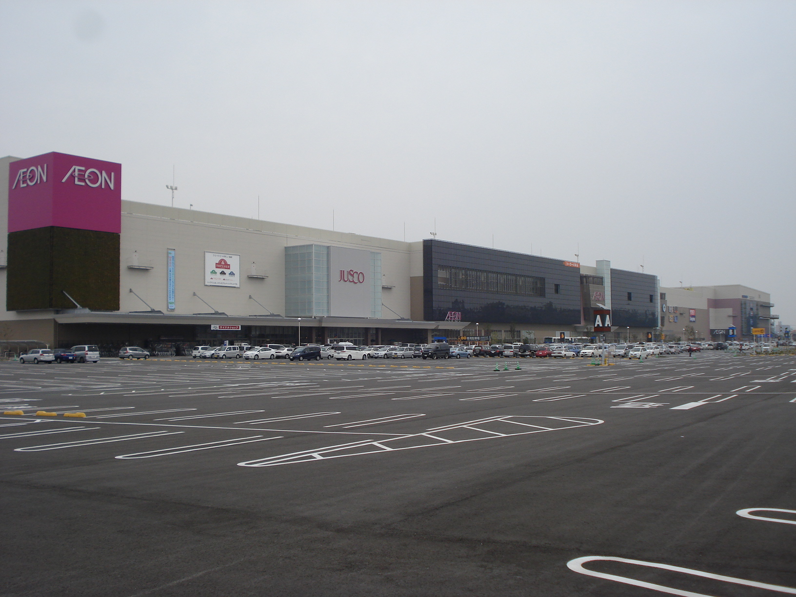 AEON Tsuciura Shopping Center (Tsuchiura-city, Ibaraki, Japan)